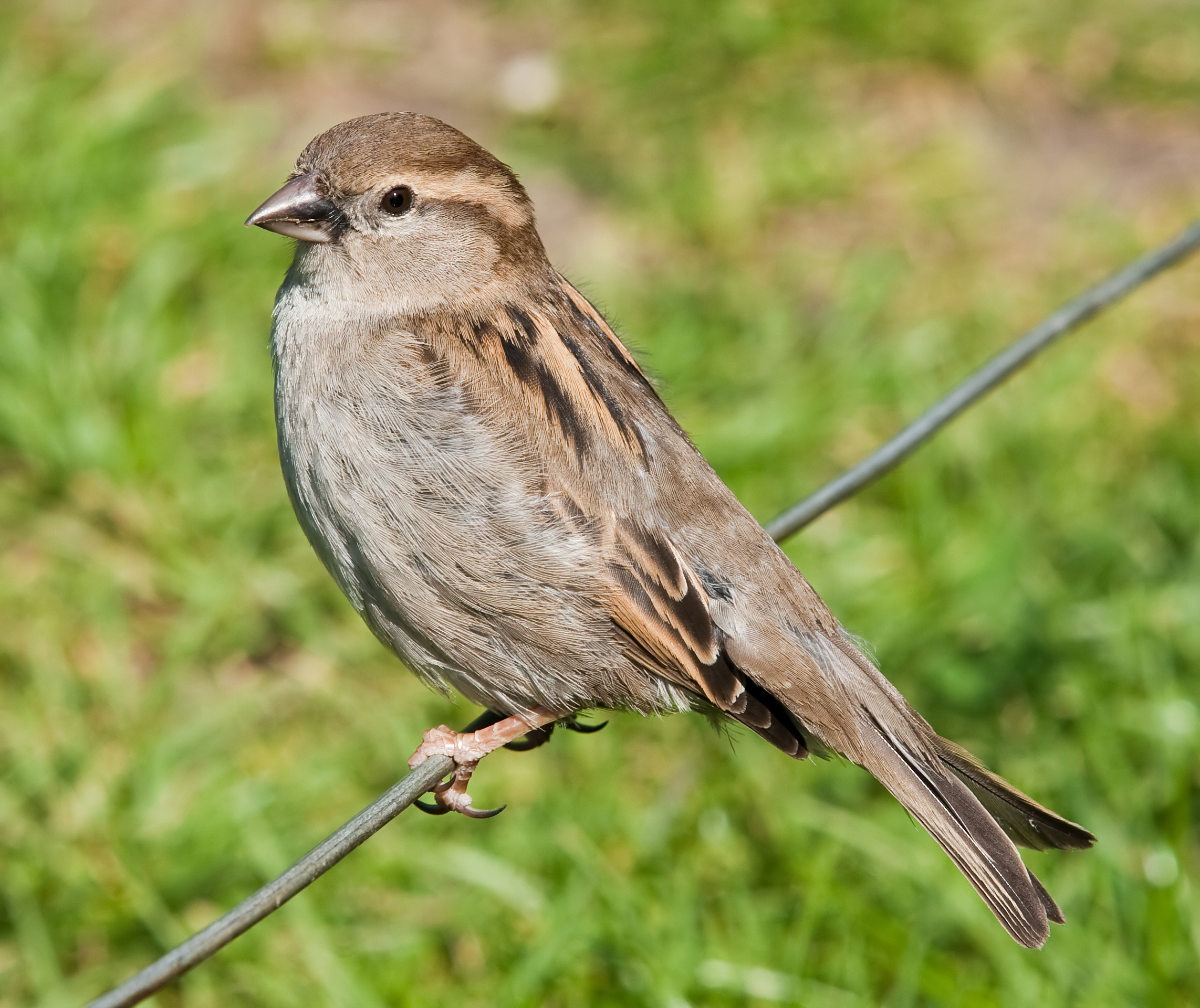 Female House Sparrow (Passer domesticus) in Leeds Castle, Kent, England. Taken by Diliff with a Canon 5D and 70-200mm f/2.8L lens at 200mm.